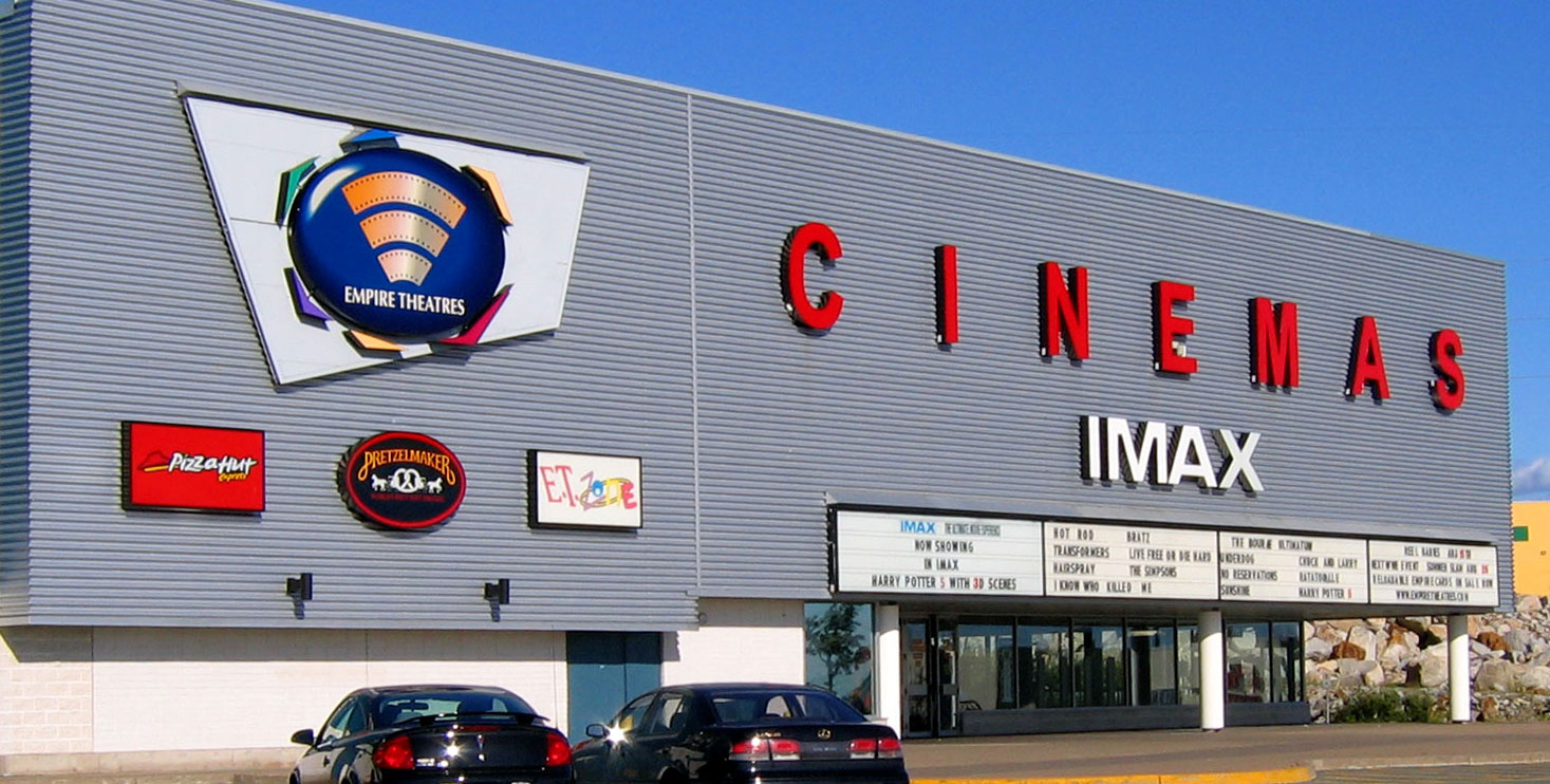 IMAX theatre in Halifax, Nova Scotia, Canada